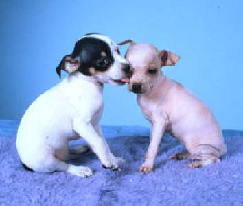 American Hairless Terrier puppy with haired littermate